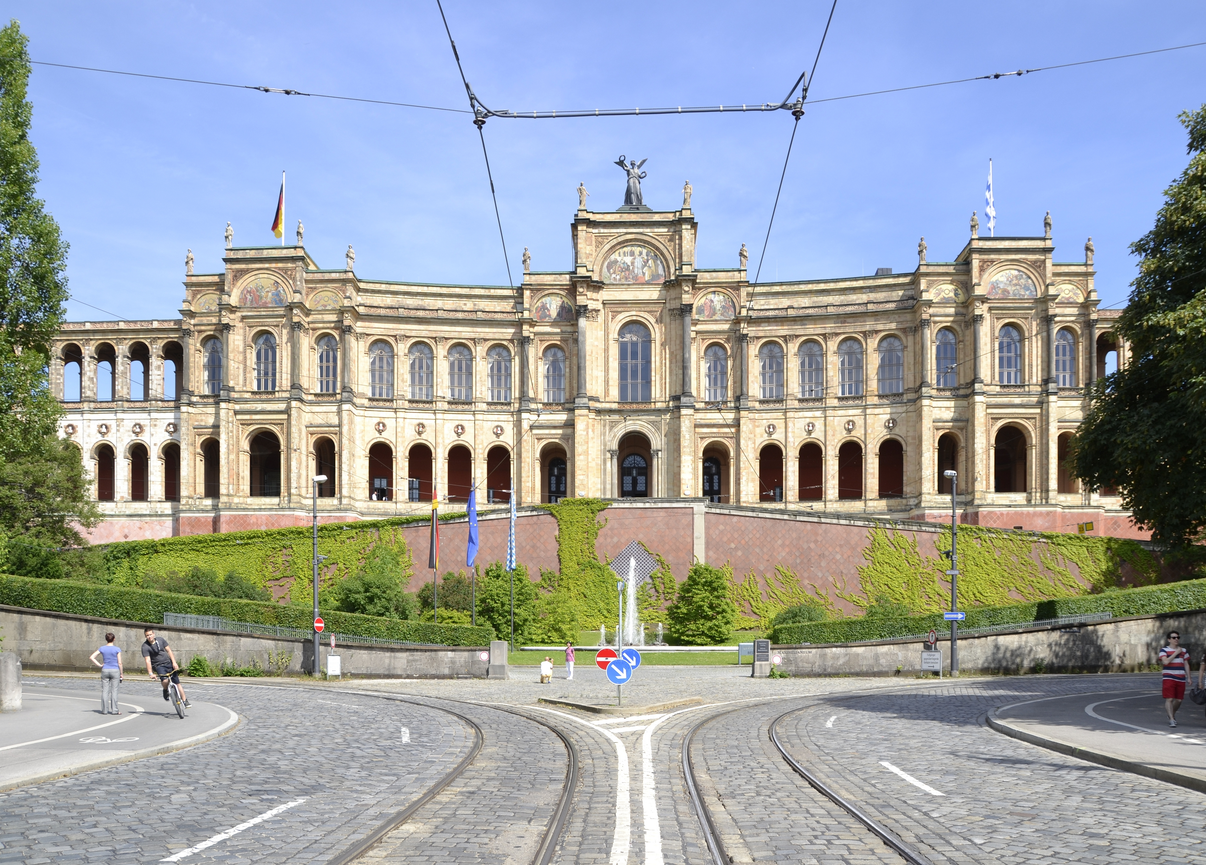 West facade of the Maximilianeum (Bavarian parliament) in Munich.